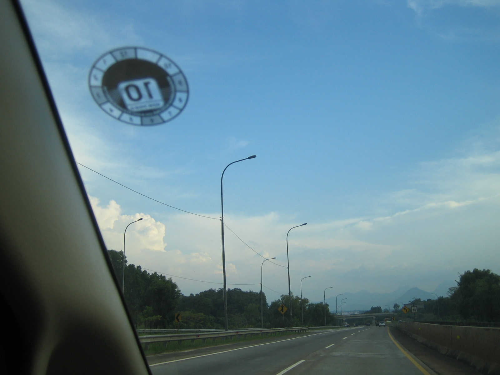 Cipularang Toll Road, KM 76, near Sadang Interchange